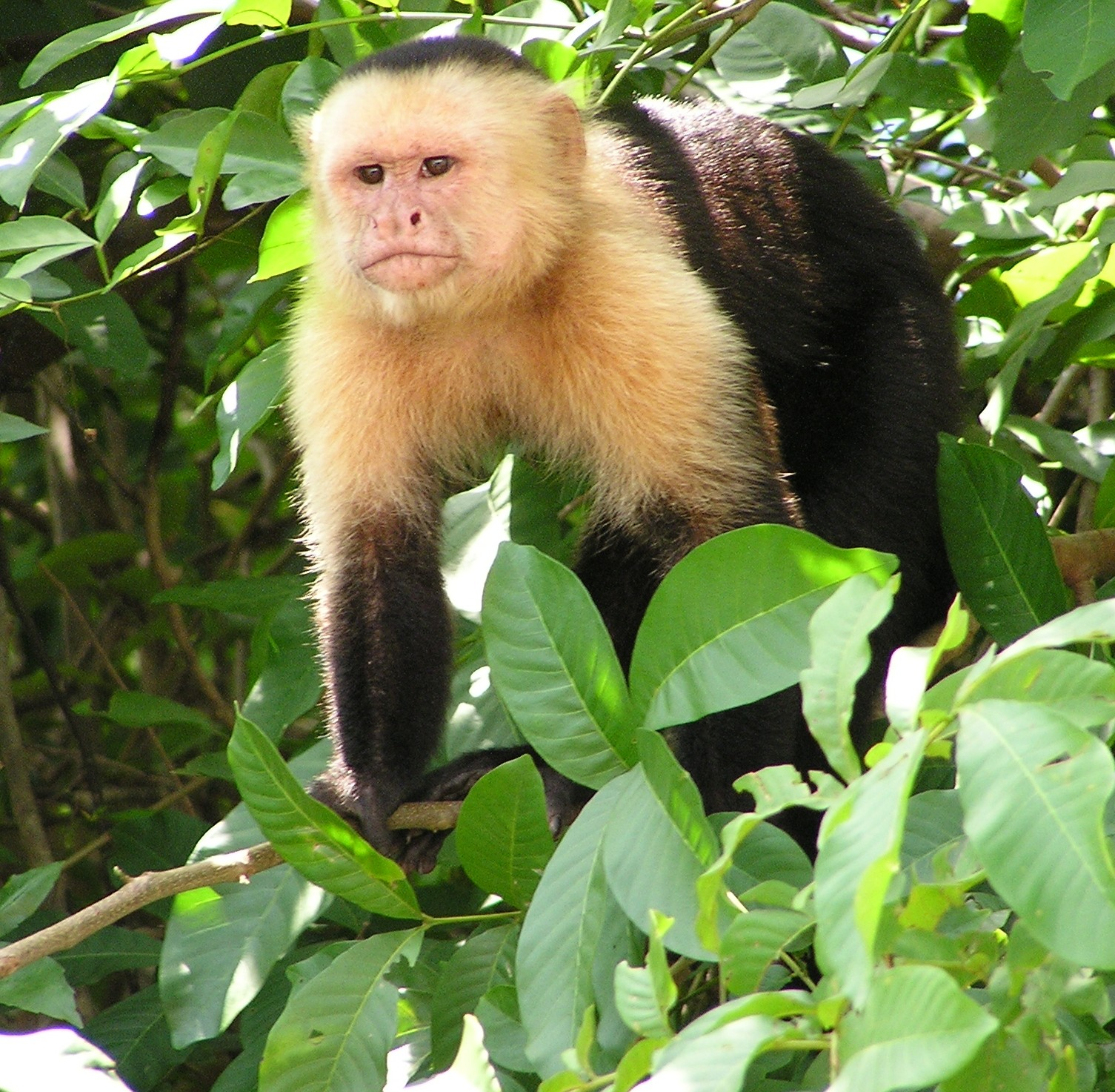 Wild Capuchin monkey (Cebus imitator), on a tree near a river bank in the jungles of Guanacaste, Costa Rica. Taken by Storkk. Note on identification Per Cebus capucinus Wikipedia page, "until the 21st century the Panamanian white-faced capuchin, Cebus imitator, was considered conspecific with the Colombian white-faced capuchin, as the subspecies C. capucinus imitator." [1]. This image was labelled as Cebus capucinus between the time of its upload (2006-11-08) and 2020-04-01. However, given that this was in Costa Rica, it was clearly a Cebus imitator, now that the taxonomical hierarchy has been updated.